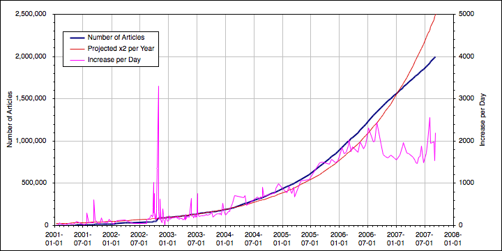 Graph of the article count for the English Wikipedia, from January 10, 2001, to September 9, 2007 (the date of the two-millionth article). The graph also shows the approximate rate of article increase per day, along with the projected number of articles based on annual doubling referenced to January 1, 2003.